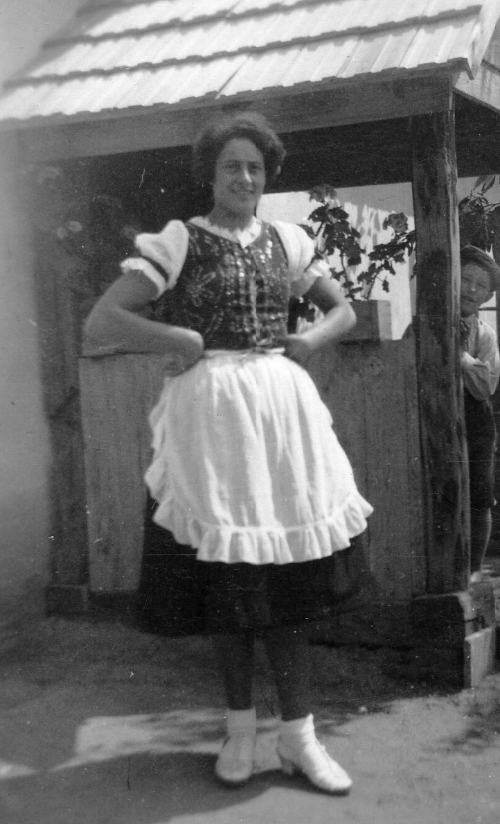 Jewish Hungarian country girl wearing Hungarian folk costume. Grünbaum Rózsa, later Rosa Schediwy (1911-2003), fiancée of Johann Schediwy. Picture taken around 1930 by Johann Schediwy, of Vienna, Austria, in Berzence, Hungary